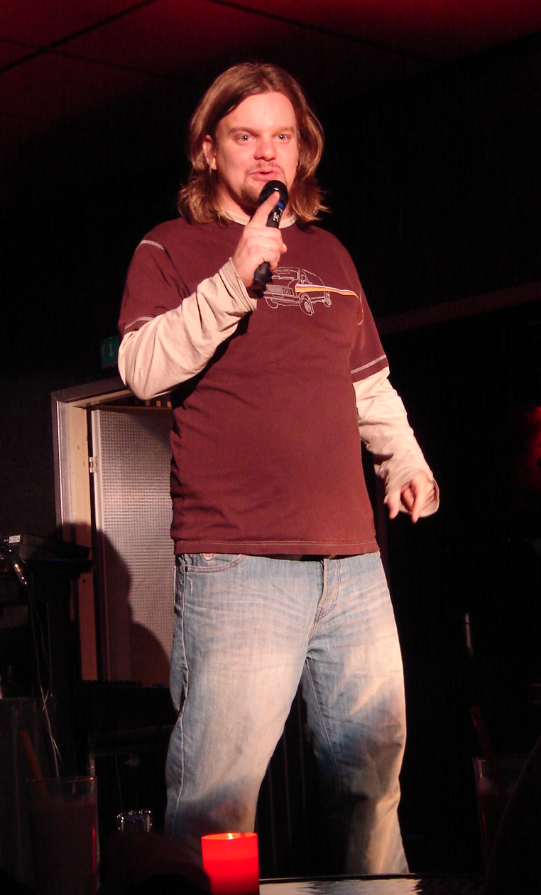 Stand-up comedian Ismo Leikola performing in Art Rock Café, Kauhajoki, Finland on 8th December 2007.